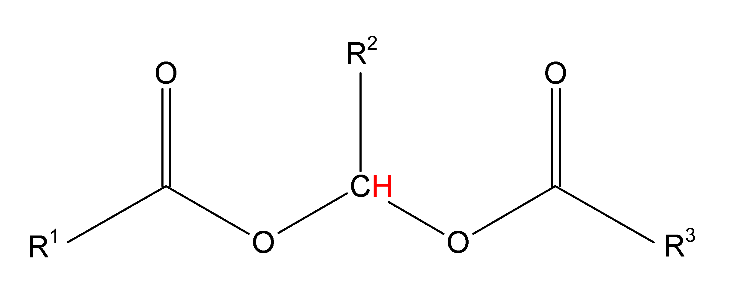 I made it myself using ACD/ChemSketch.